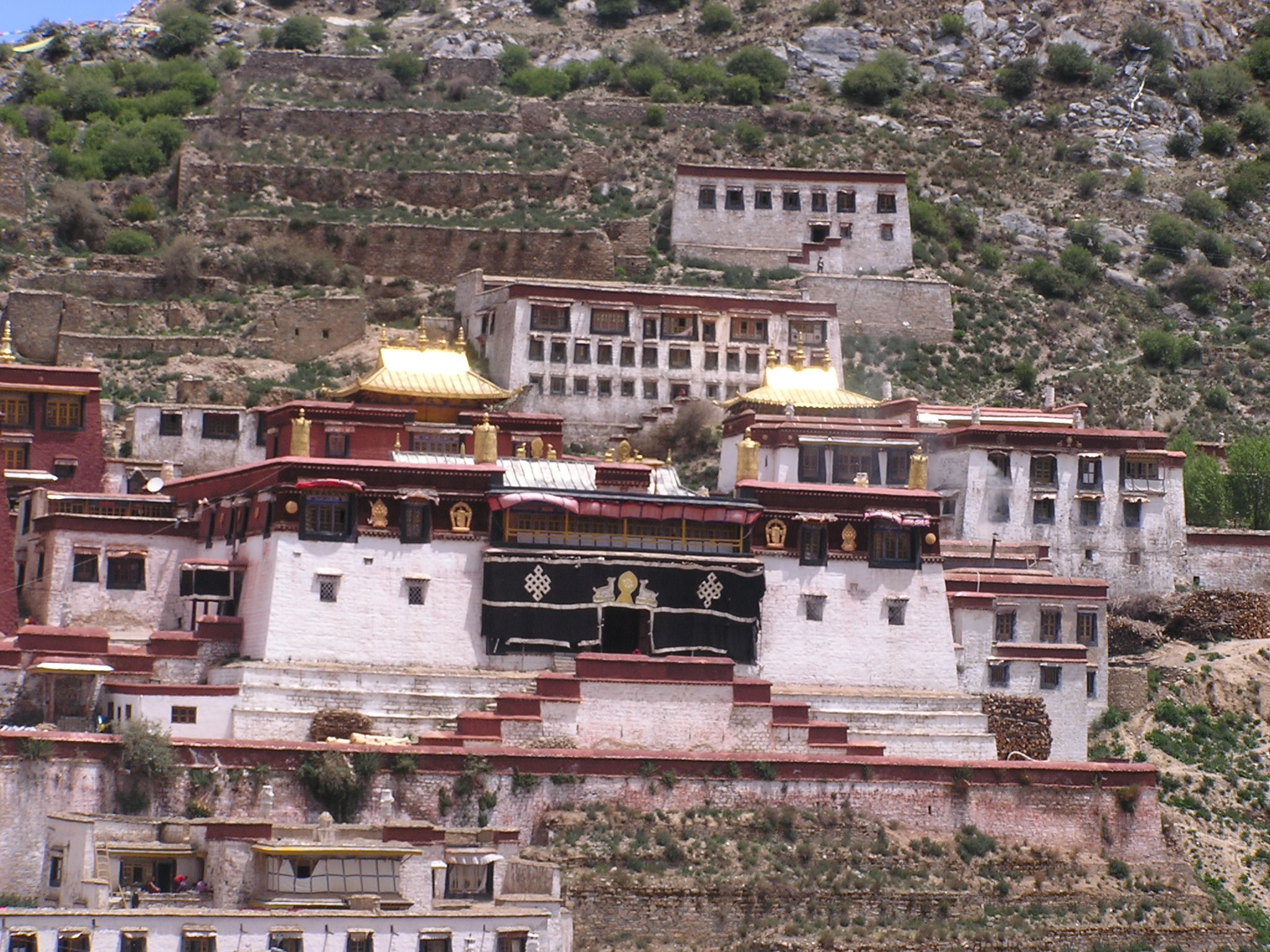 Ganden Monastery 19.